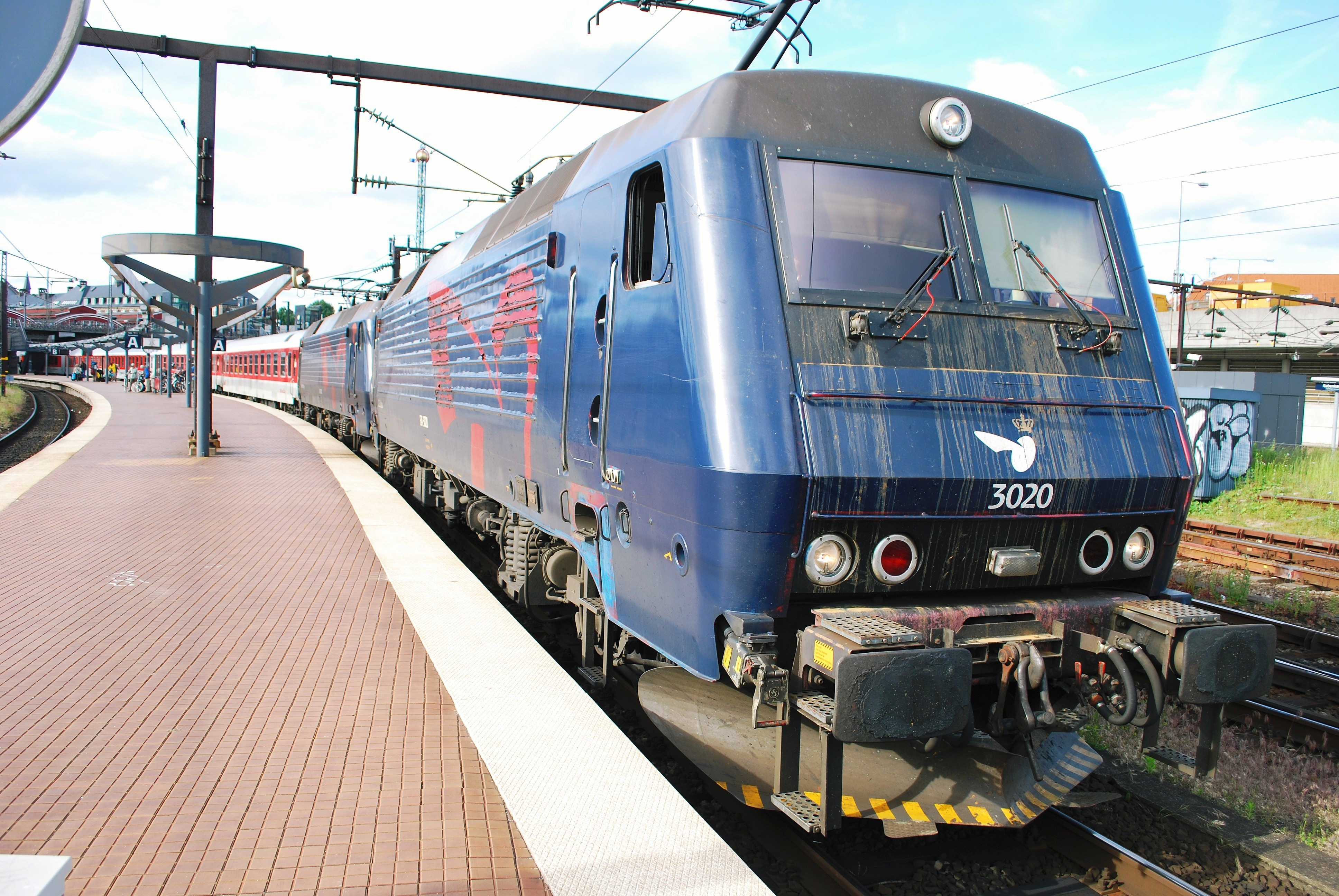 DSB Thyssen-Henschel/Siemens/Scandia Class EA, 25kV ac, 5,360 hp Bo-Bo No.3020 "GF Ursin", with No.3007 "Kirstine Meyer" double head the Kobenhavn - Munich/Basle/Koln/ Amsterdam "Borealis" City Night Line DSB/DB sleeper service at Kobenhavn, 6/10. I travelled on this train to Koln. The 1st Class sleeper was excellent and included a free bottle of wine!